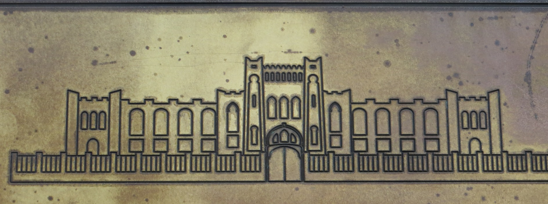 Geography of Israel